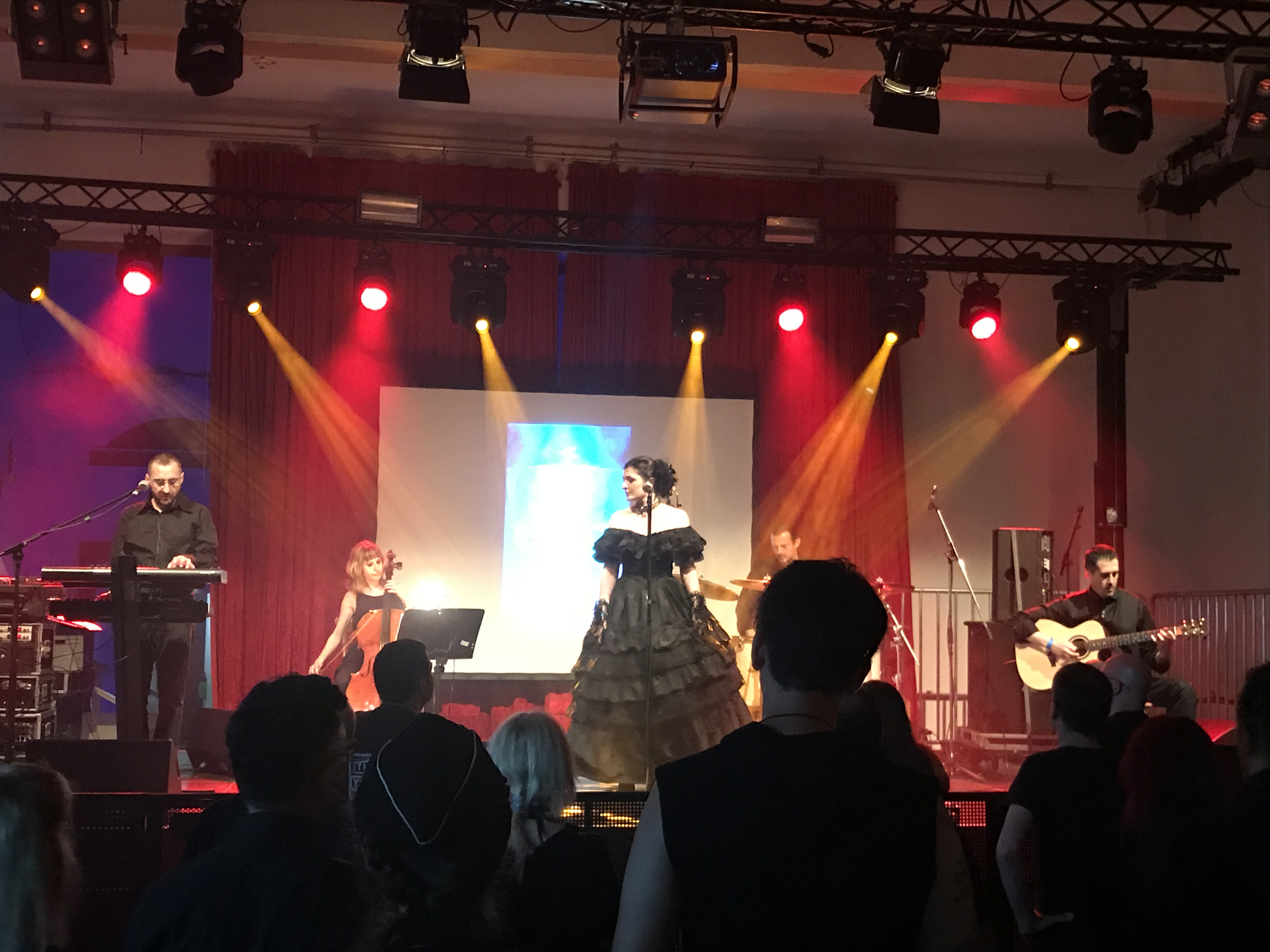 Hautville neofolk progressive group